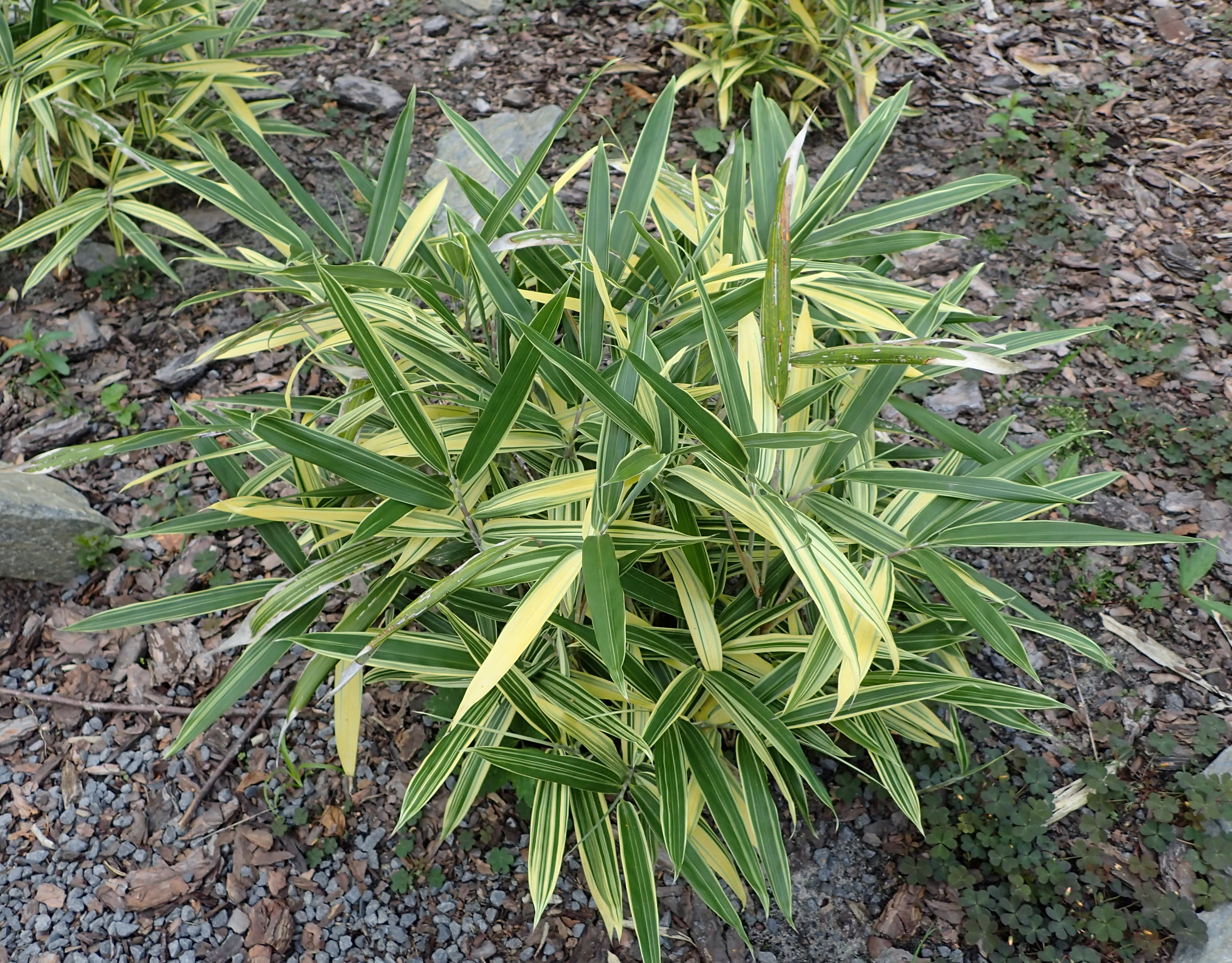 Sasaella masamuneana 'Albostriata' at Botanical Garden in Zielona Góra